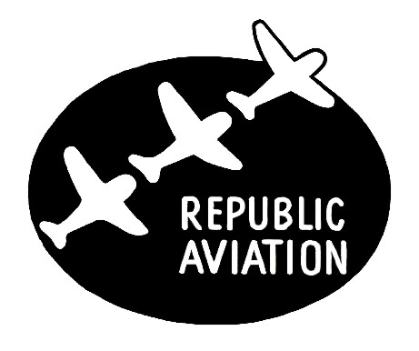 Logo of the Republic Aviation Corporation. It was an American aircraft manufacturer based in Farmingdale, Long Island, New York (USA), founded in 1931 and aquired by Fairchild Aircraft in 1965.